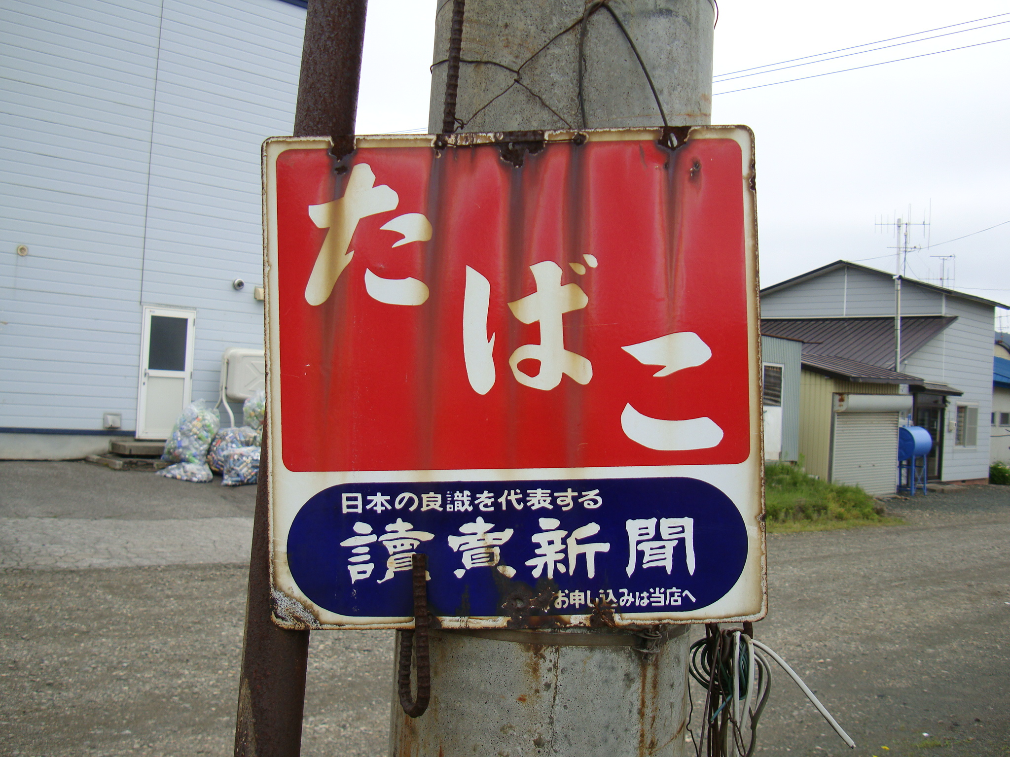 "Tobacco" board of Japan Tobacco and Salt Public Corporation